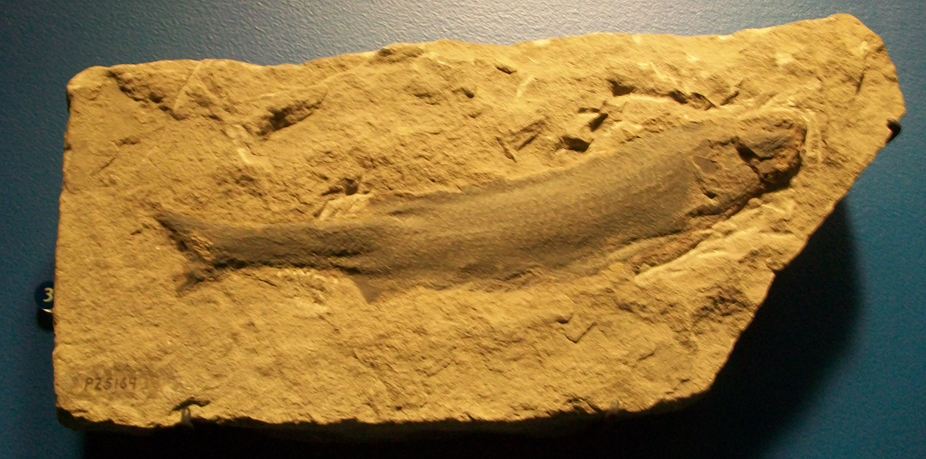 Fossil of Gonatodus brainerdi in the Field Museum of Natural History.